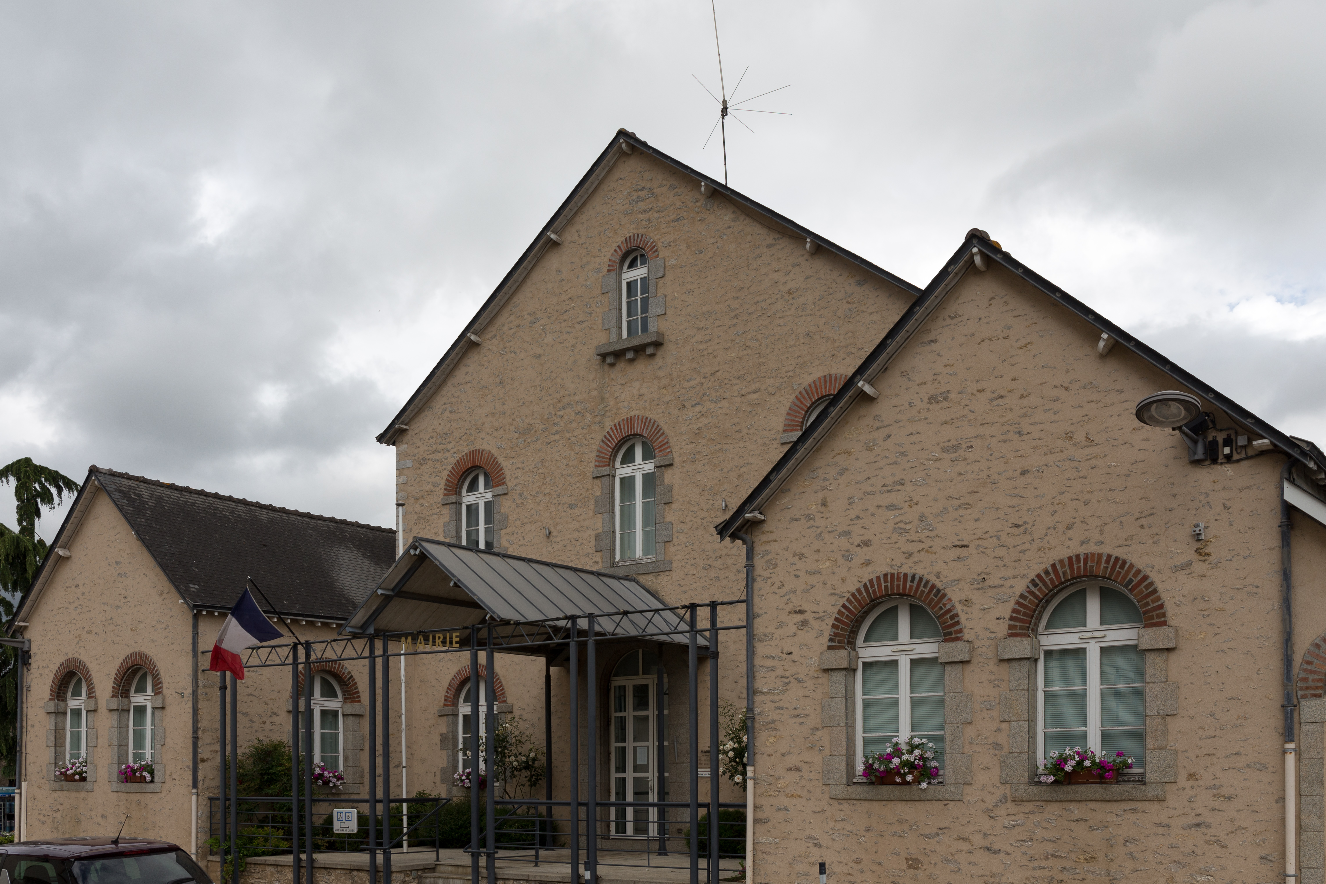 Town hall of Saint-Pierre-la-Cour.